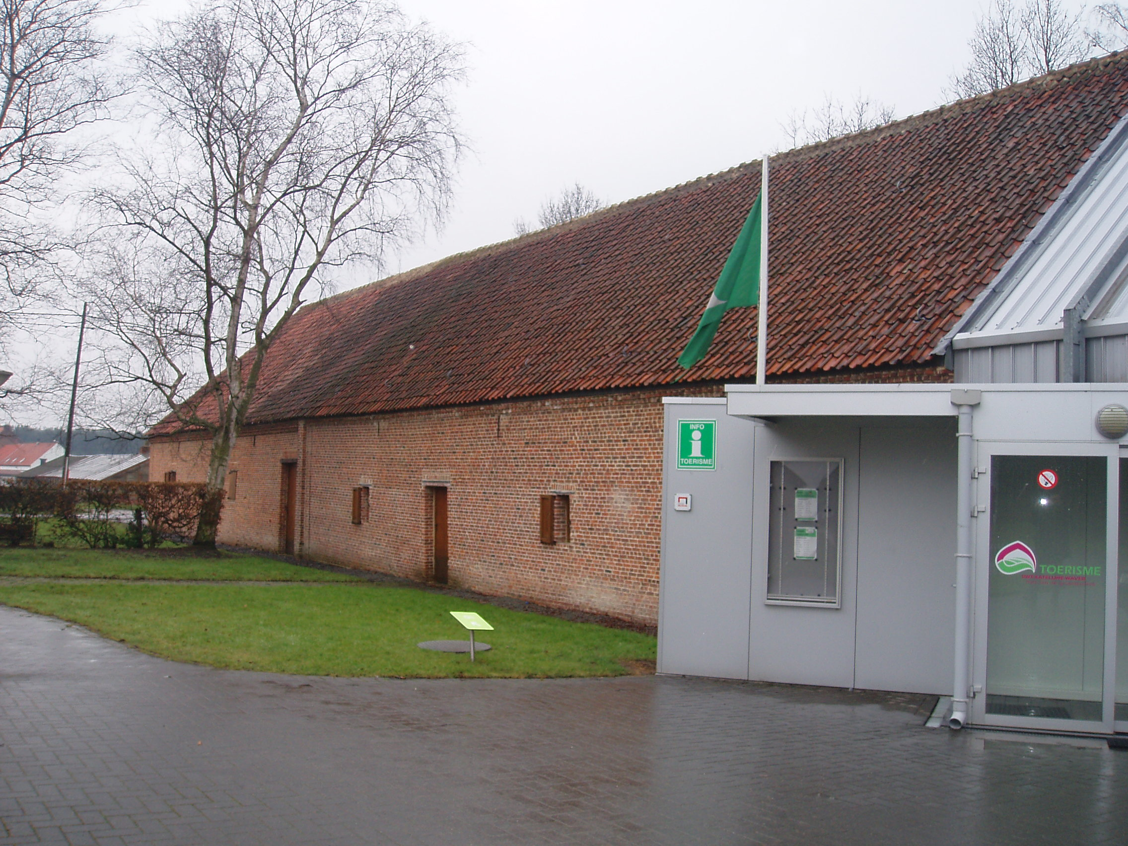 Sint-Katelijne-Waver Midzeelhoeve barn